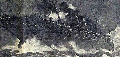 Part of the New York Herald front page about the Titanic disaster.